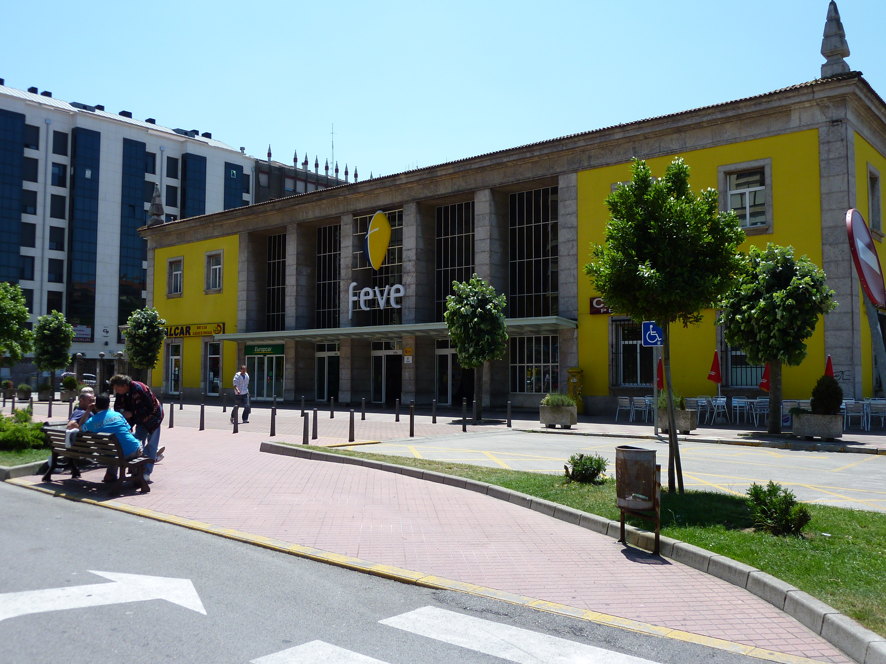 Railway station Santander FEVE in Cantabria, Spain